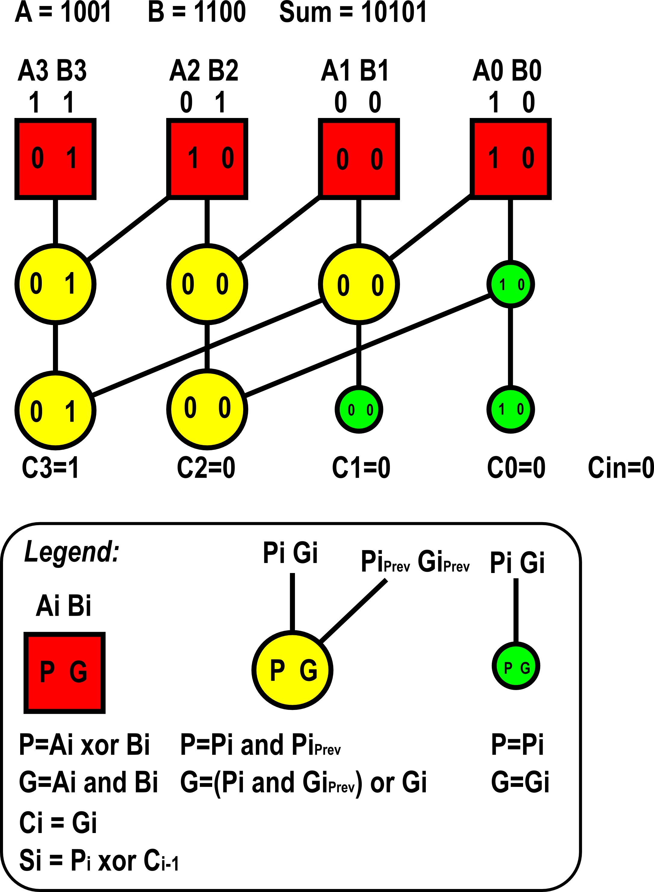 This is a 4-bit Kogge-Stone adder example, showing the addition of two 4-bit numbers.